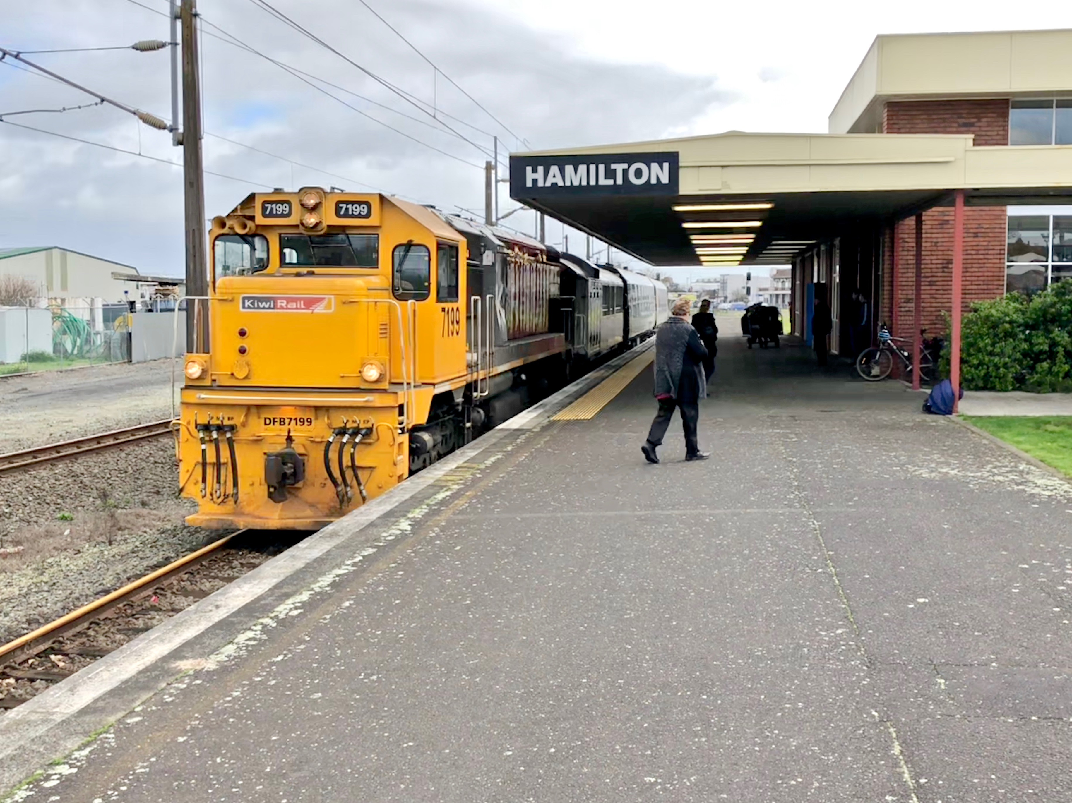 Northern Explorer southbound train at Hamilton